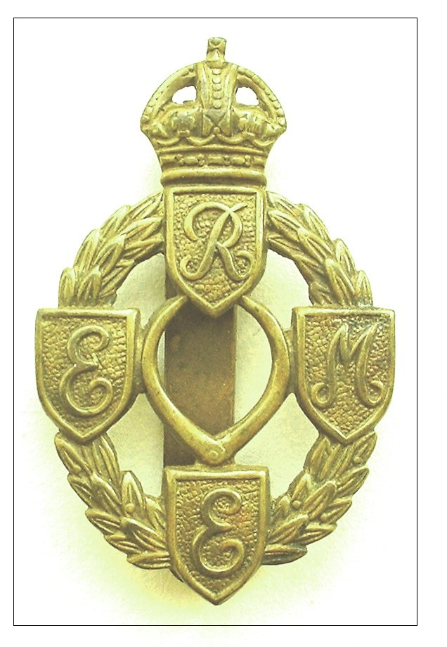 First version - in service 1945-47